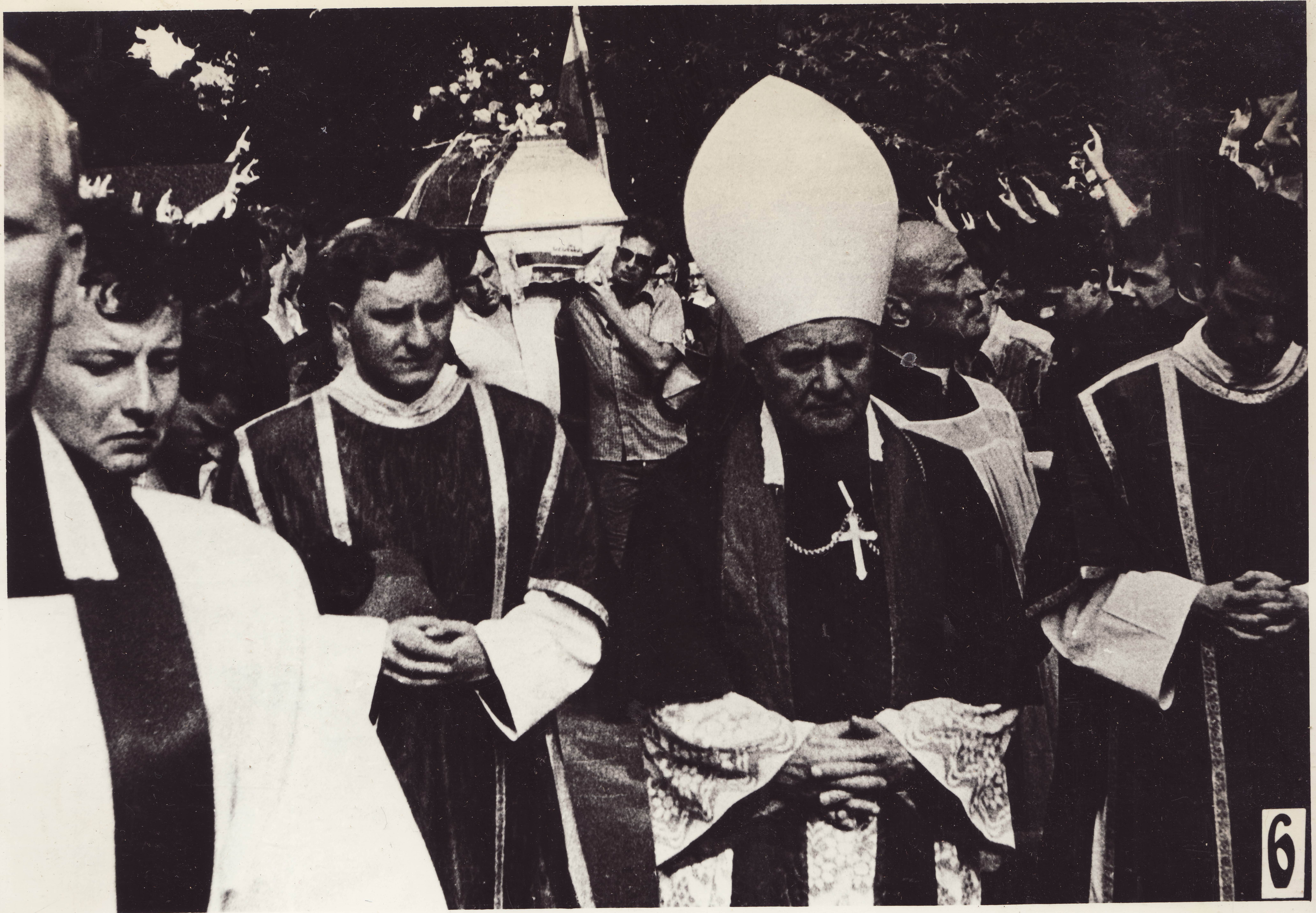 Funeral procession of Grzegorz Przemyk on the way from Saint Stanislaus Kostka Church to Powązki Cemetery in Warsaw. Bishop Władysław Miziołek in front of the coffin.